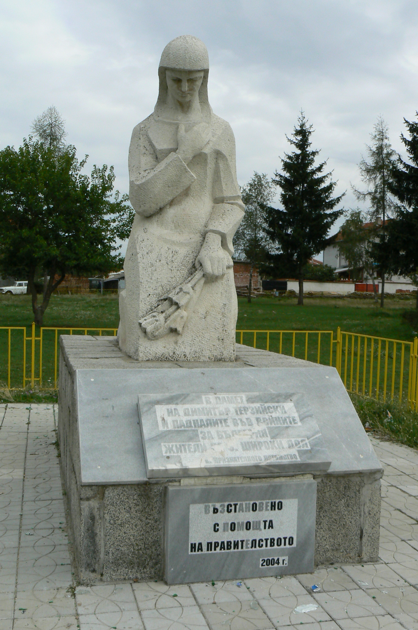 War monument in village Shiroki dol, Bulgaria